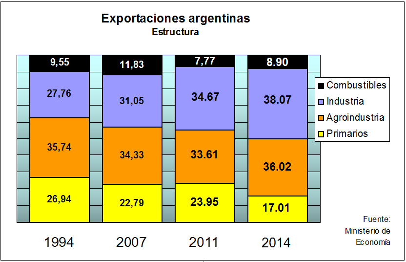 Argentina. Estructura del PBI(GDP structure)- Comparación 1994-2007. Graphic.